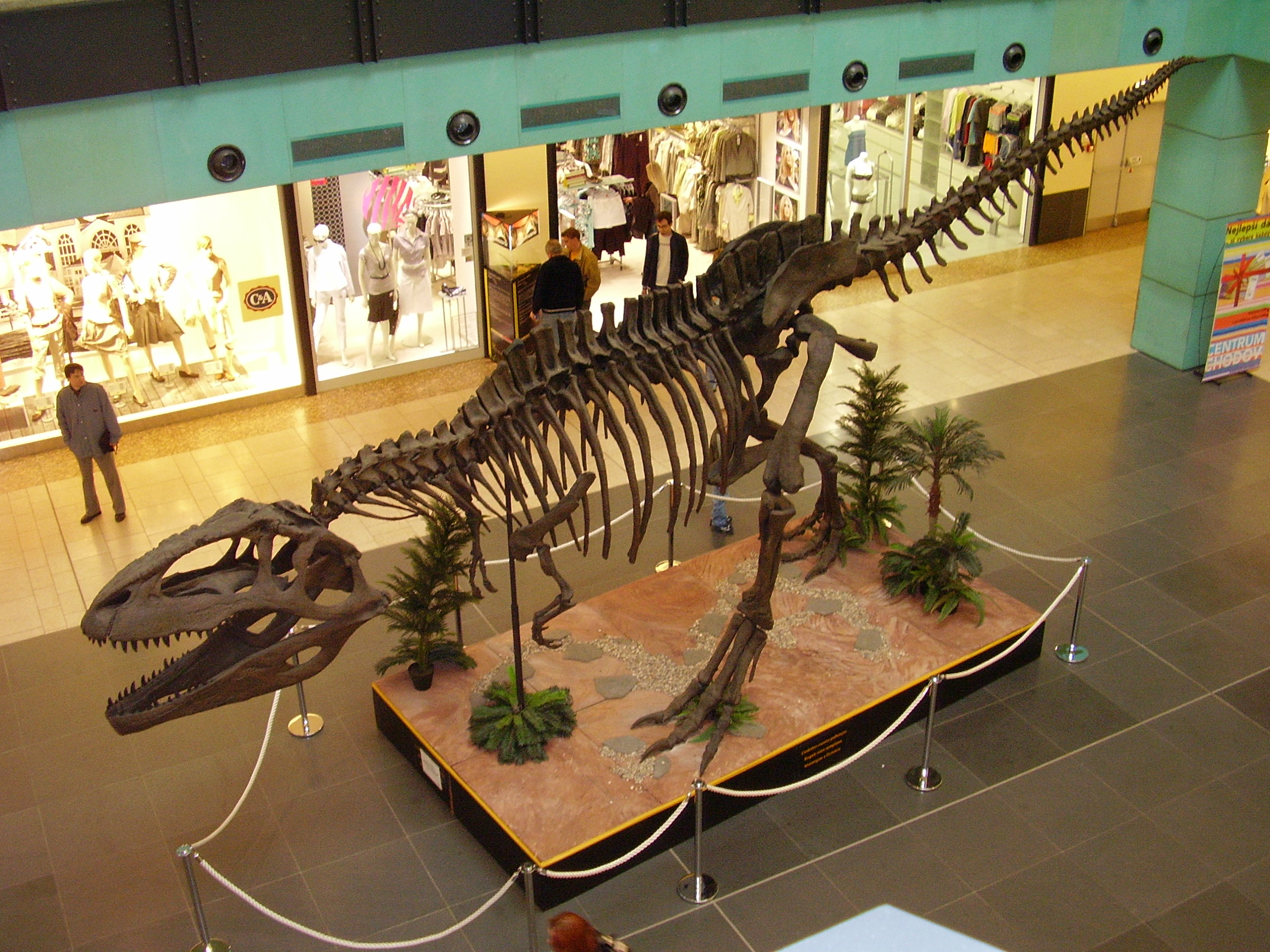 Skeleton of a giant theropod Giganotosaurus carolinii (exhibition in Prague, 2007).